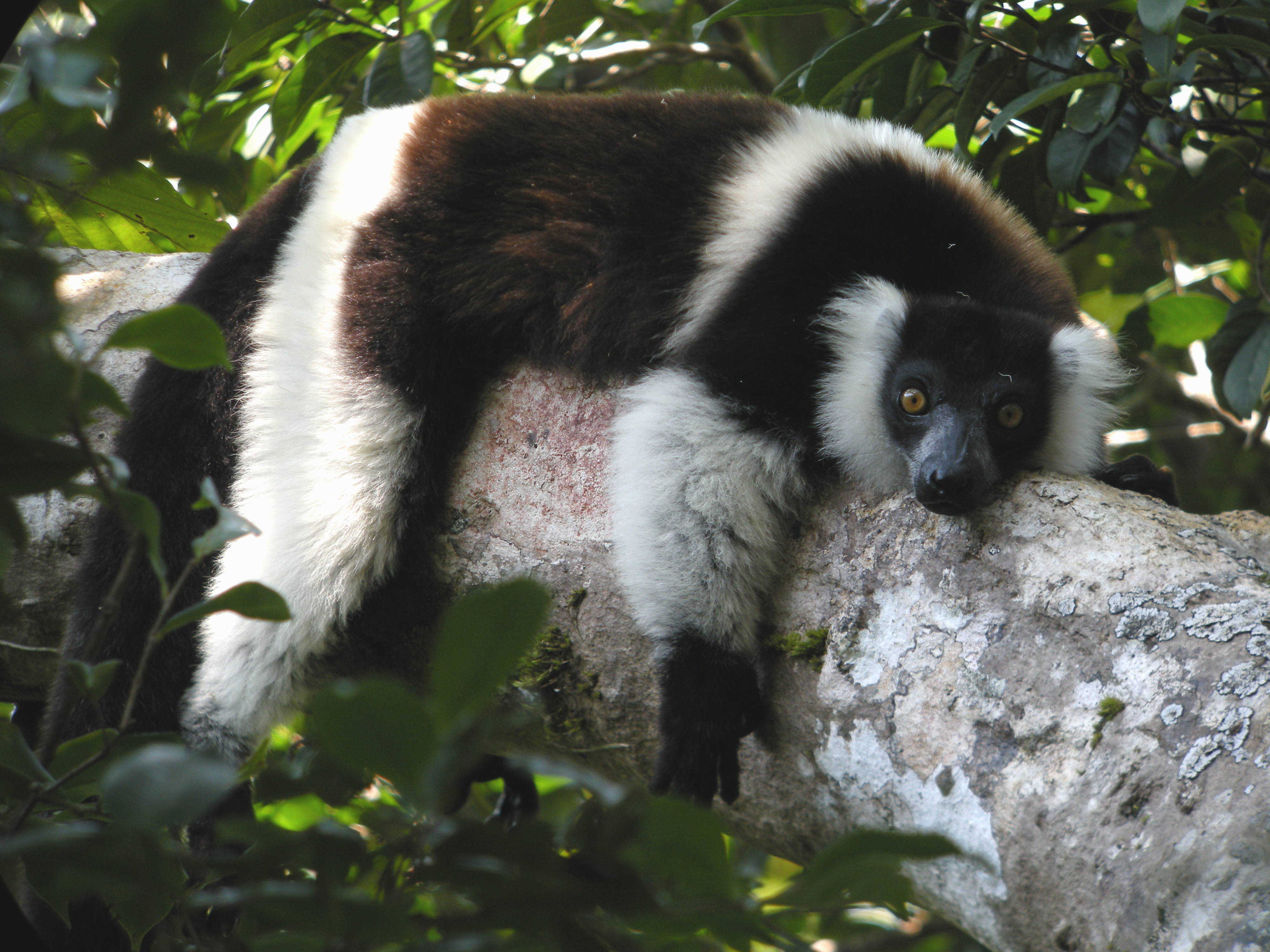 Black-and-white ruffed lemur resting on a tree limb in Madagascar